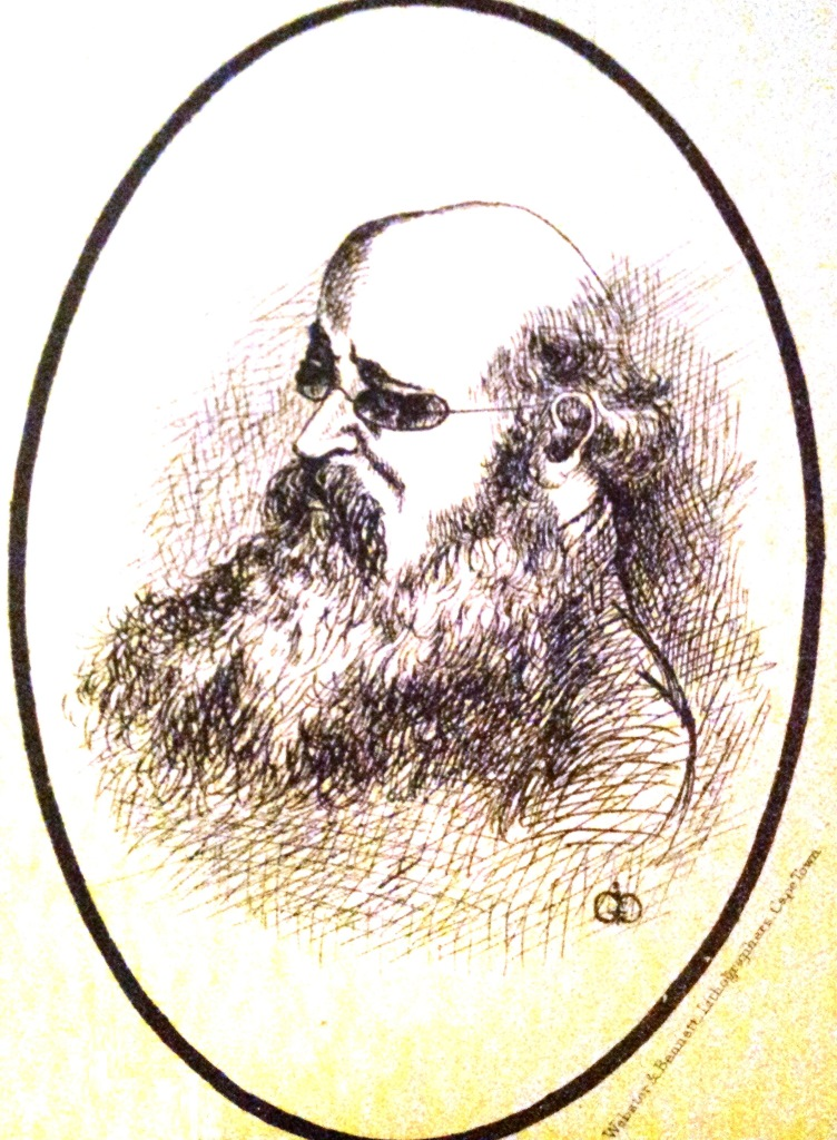 Patrick McLoughlin - Argus Editor - Cape Town - from an unflattering caricature by the opposing Lantern in 1879